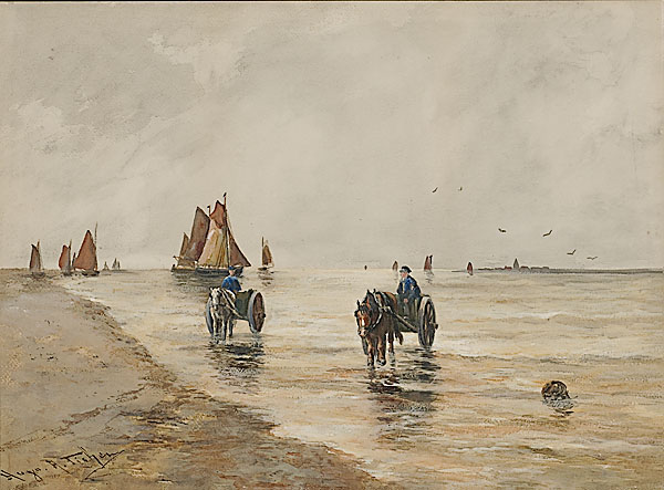 Hugo Anton Fisher (American, 1854-1916). Sulkies Along California Coast. watercolor on paper signed l.r. 21" x 29"